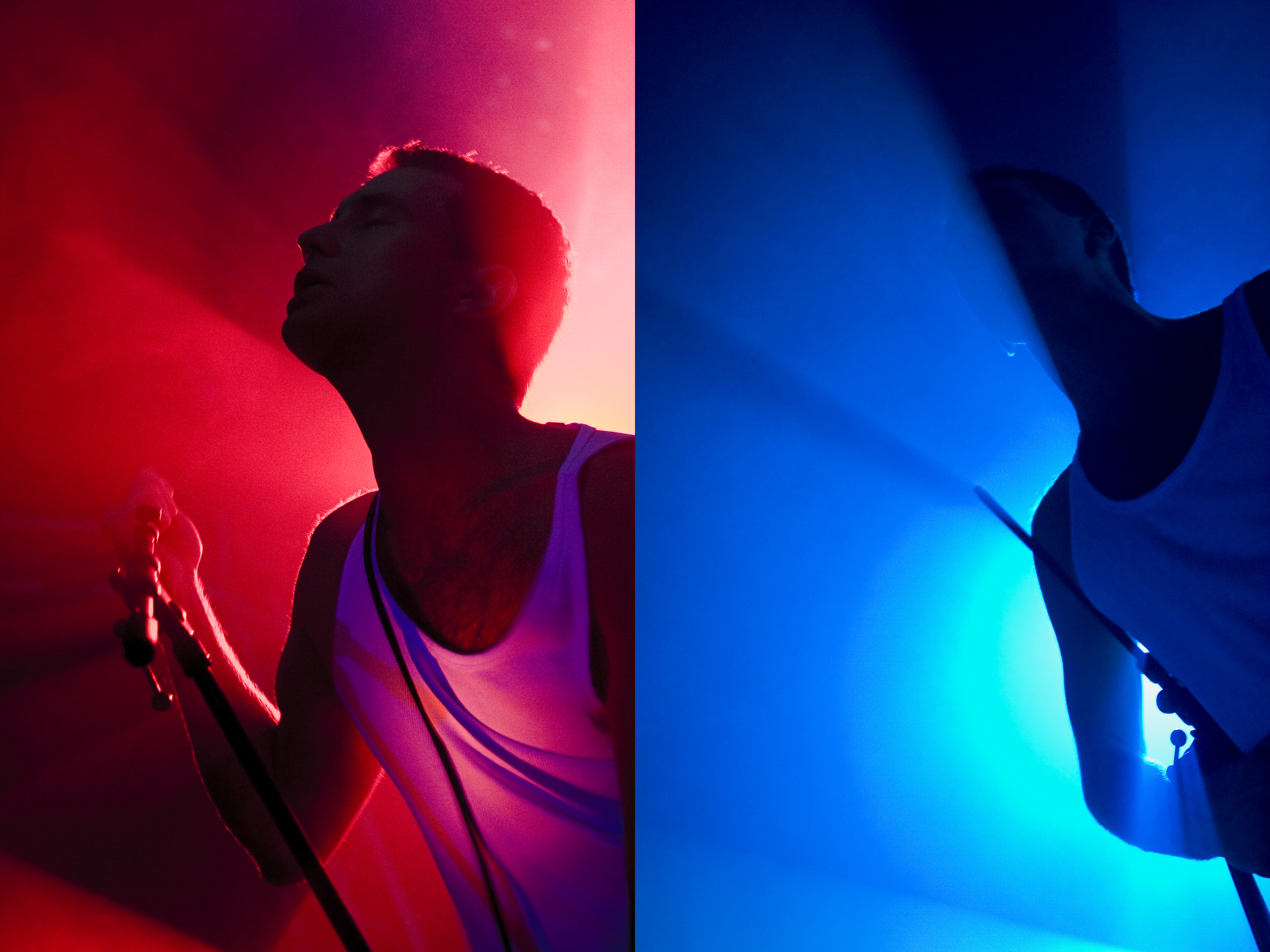 The Tough Alliance - Le Point Ephémère - Paris Xème - February 29, 2008 – Stupid Playback Performance ! - Modular Party